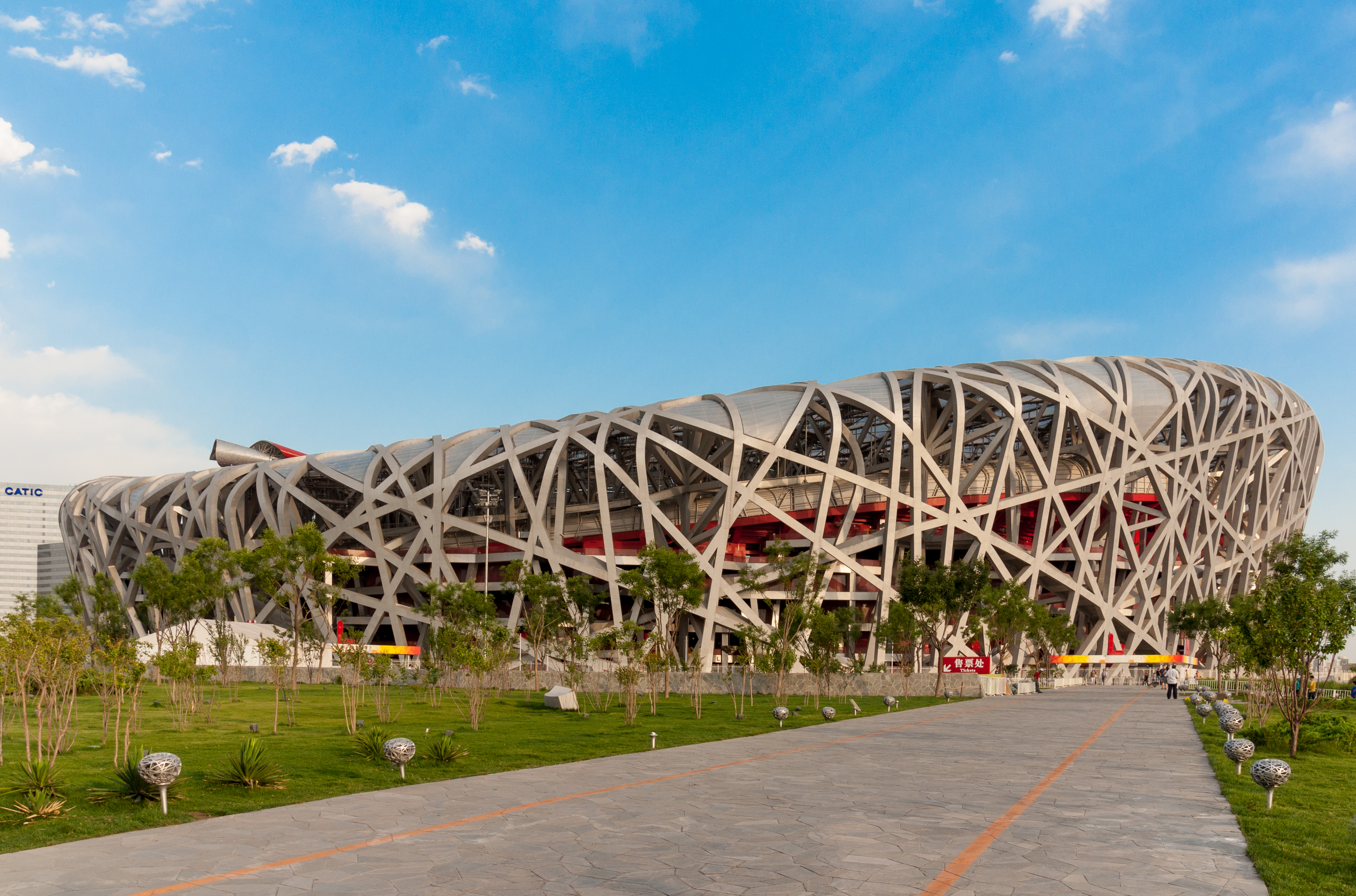 Beijing, China: National Stadium, also known als "birds nest"